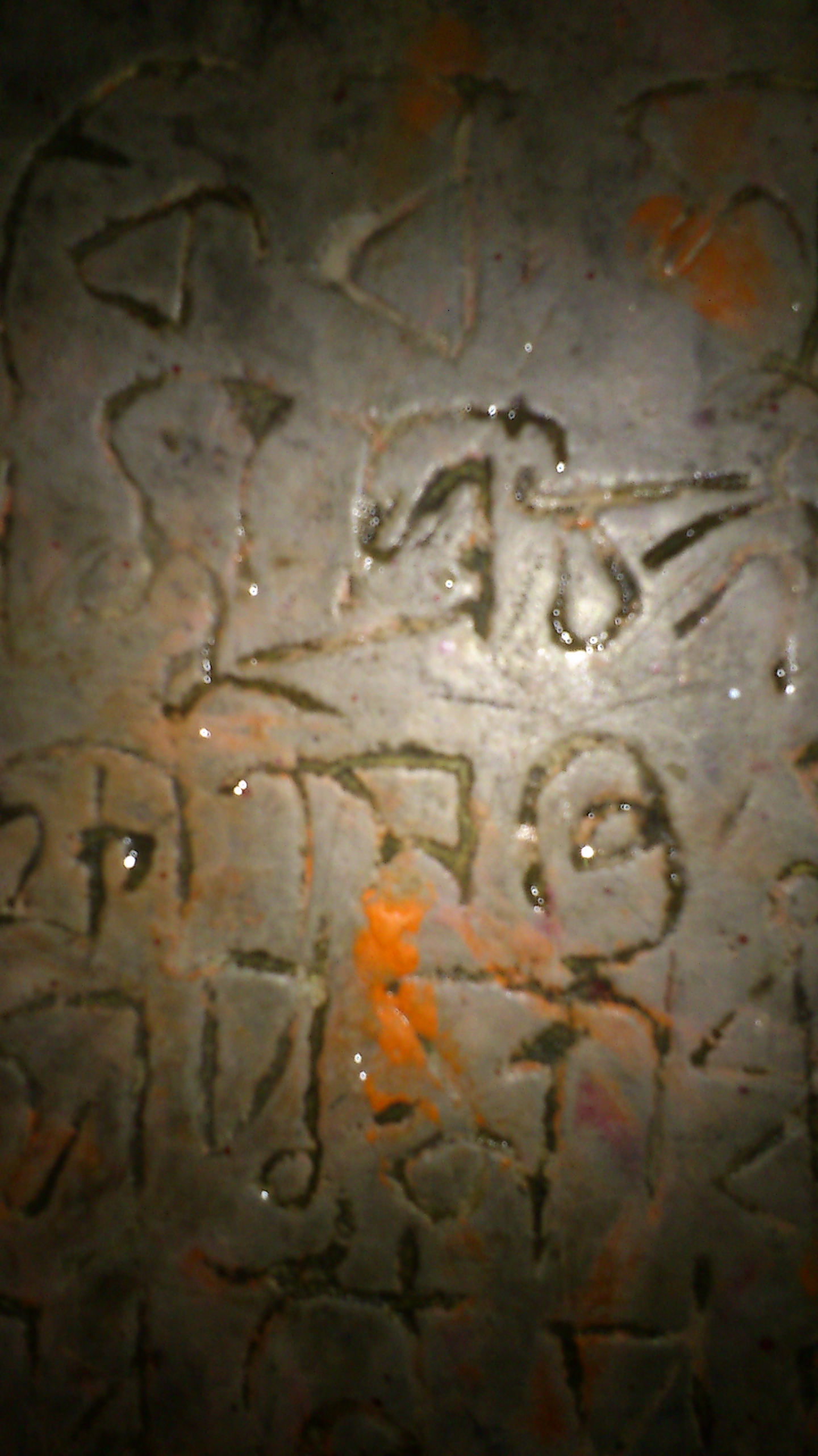 Inscription found on front wall of the newest temple in Begunia, Barakar